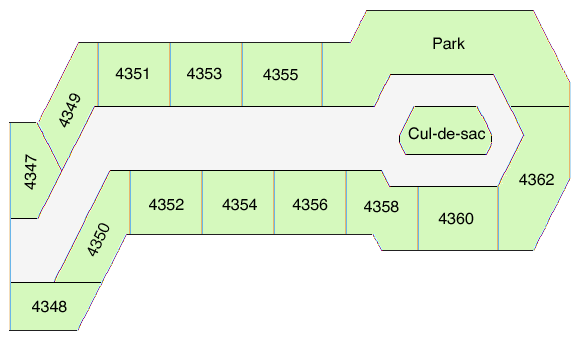 Wisteria Lane (Desperate Housewives) map.